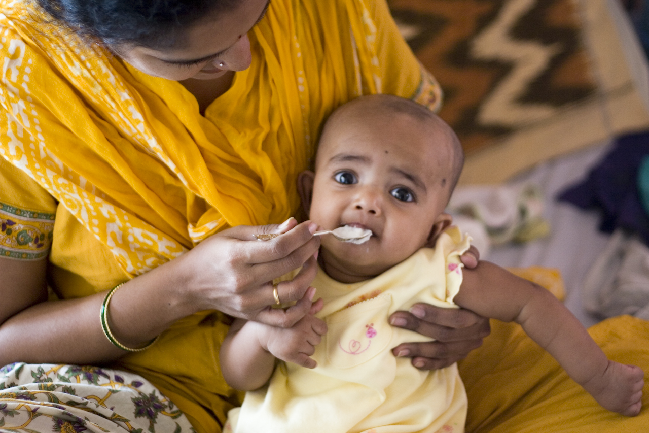 Annaprasana, getting the first solid food (cereals), one of the Hindu-Samskara or Sanskar (consecration). Baby girl getting her first spoon-ful of rice from a custom made silver spoon. This is very soft boiled rice, some sugar and ghee.She is a Rice girl